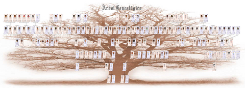 Ahnenblatt Family Tree Example